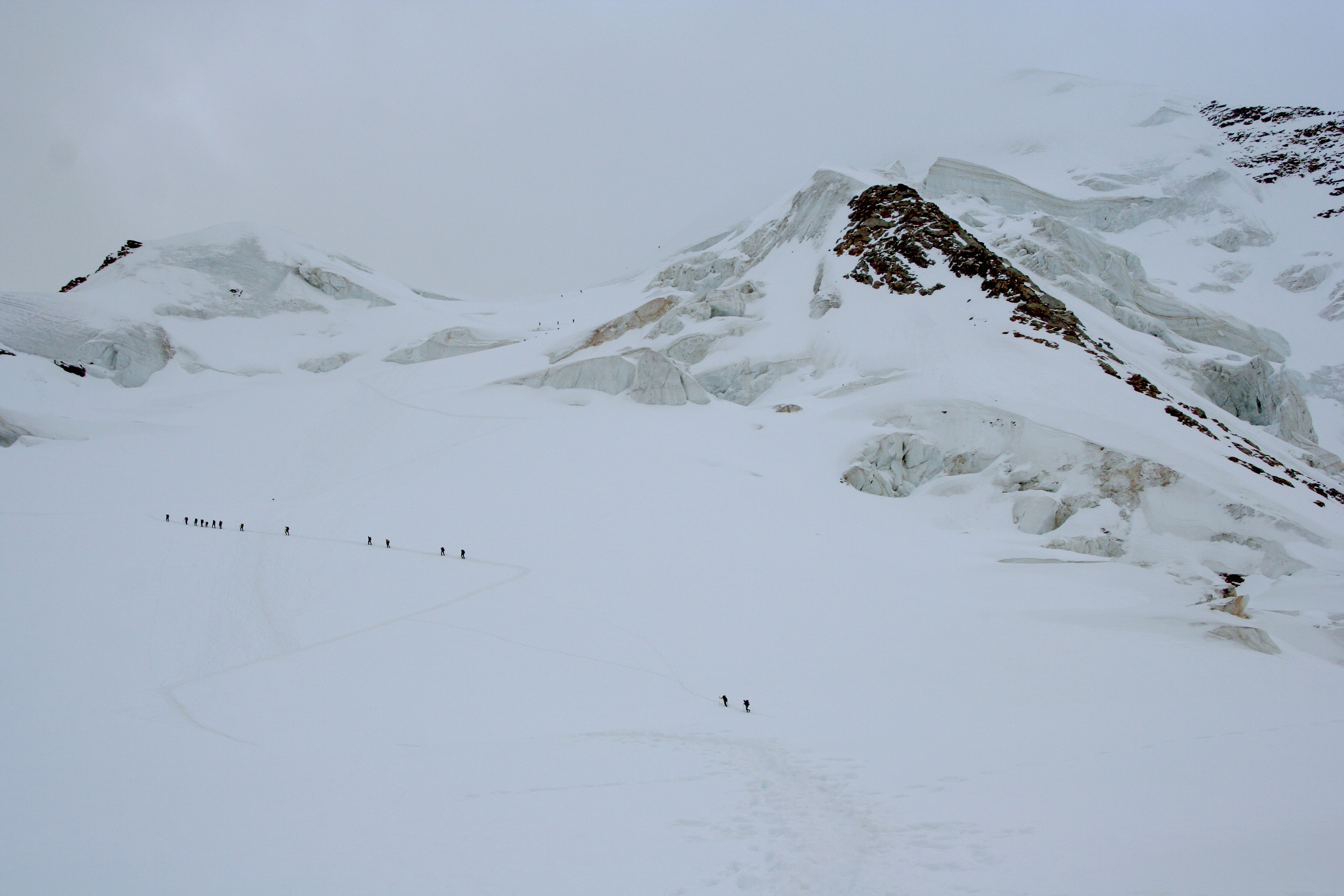 Climbers on Pers Glacier - Piz Palü in Bernina Range in Central Eastern Alps, Switzerland.